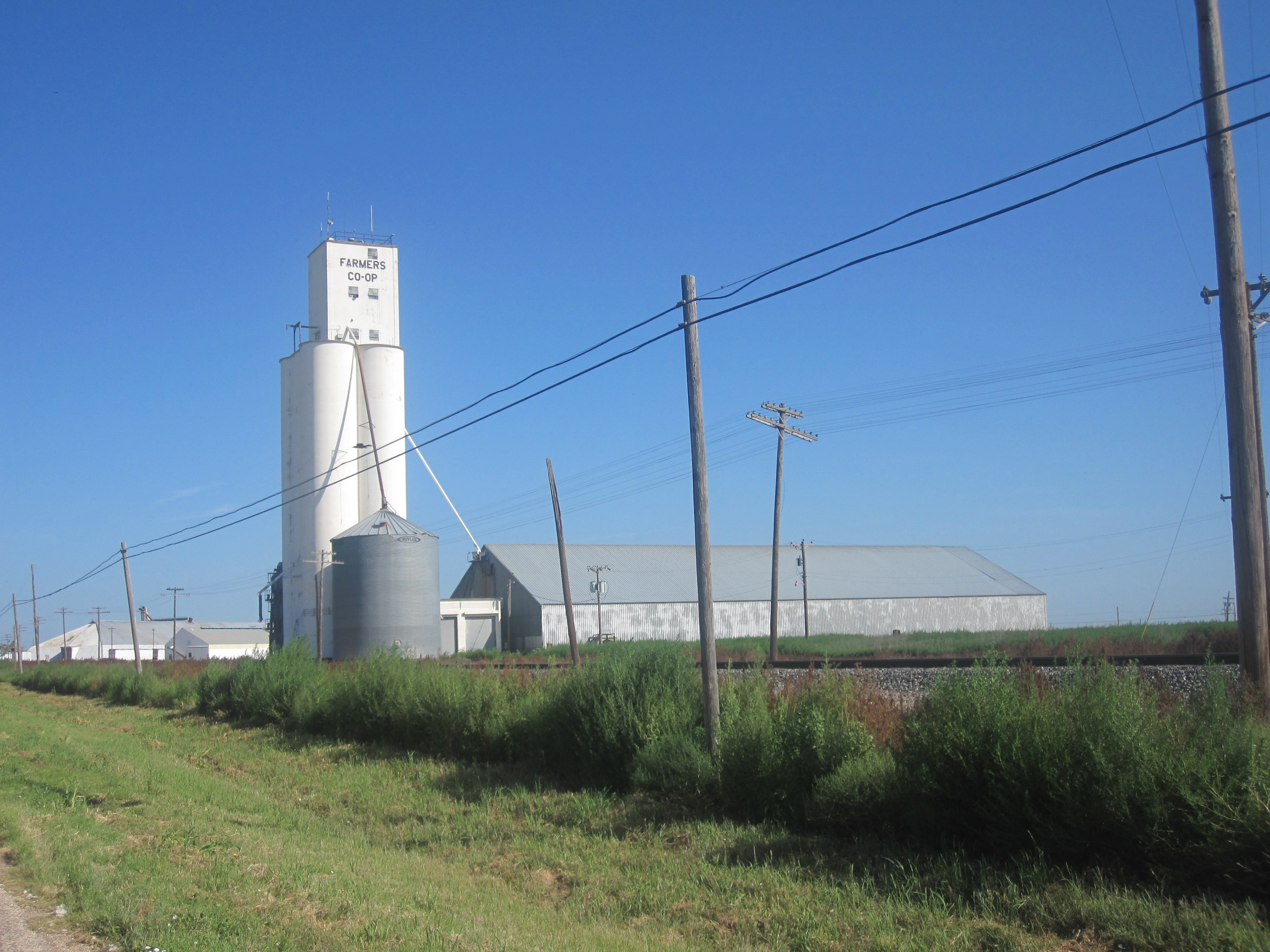 I took photo in Littlefield, TX, with Canon camera.